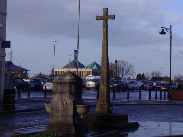 Leyland Cross, Leyland, Lancashire. The "Cross", as it is simply known throughout Leyland, is believed to be medieval in date. It stands in what was once the centre of old Leyland. The drinking fountain replaces an old well which still exists below the surface. The old buildings and street behind have been demolished and a car park [for a well-known supermarket] now sadly dominate the area.